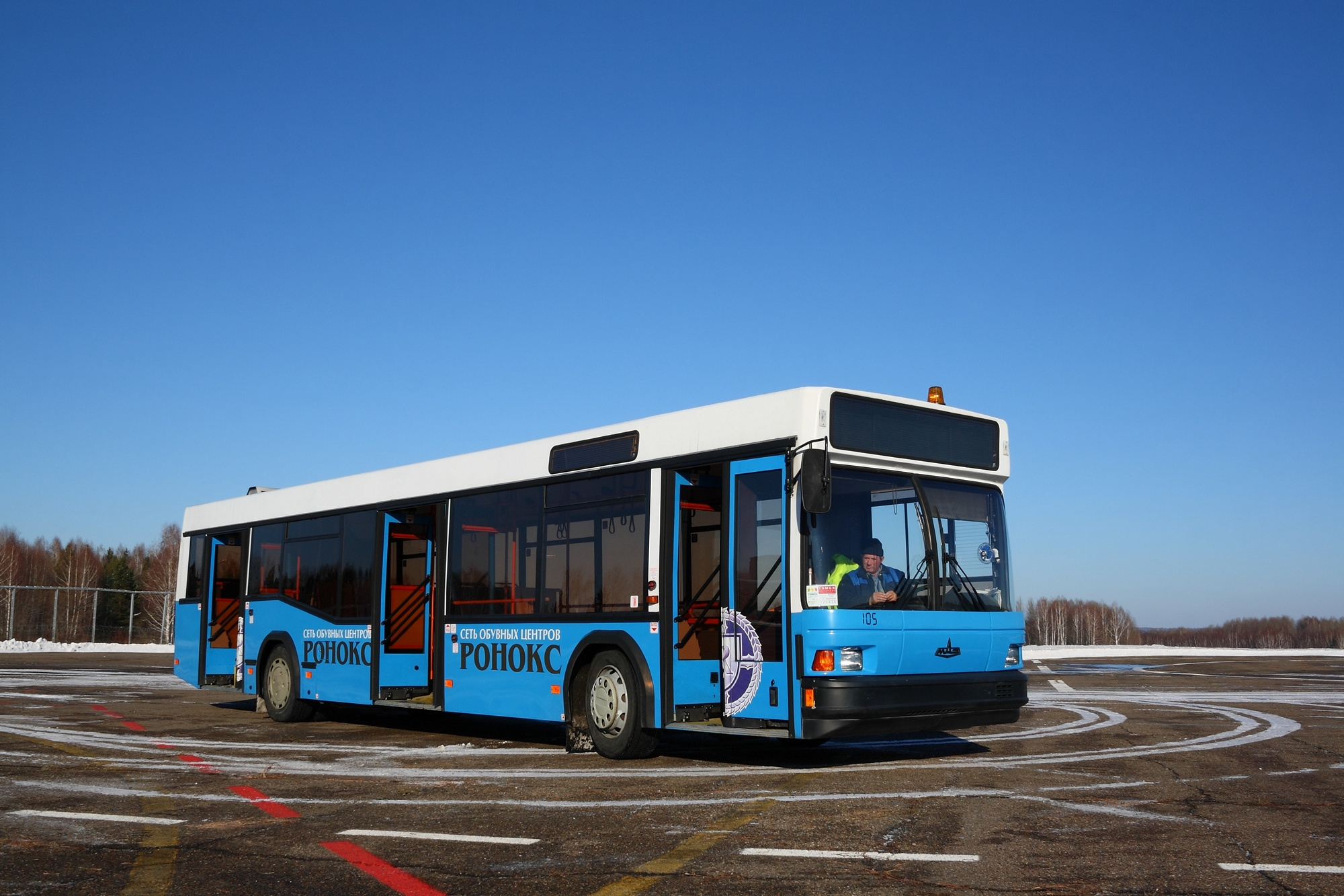 MAZ-103 airport bus in Tomsk airport (TOF/UNTT), Russia